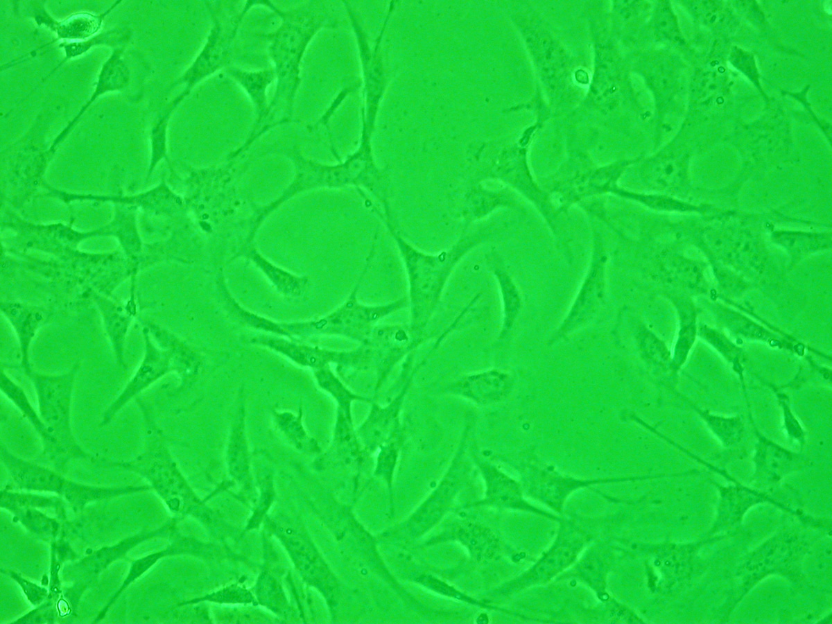 Phase-contrast microscopic image of mouse embryo fibroblasts. (under green light. 100-fold magnification.)